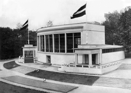 Expo 1935, Latvia, architect S.N.Antonov.